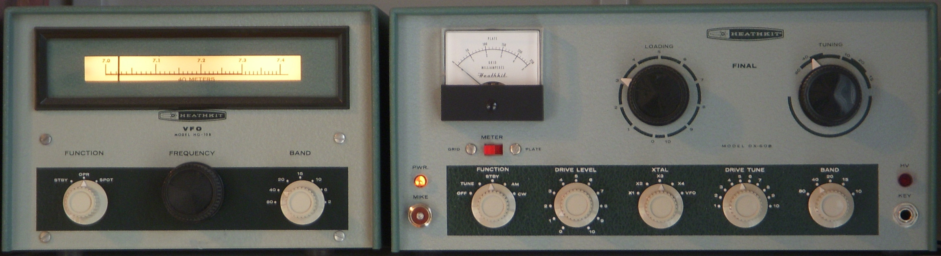 Heathkit DX-60B transmitter and HG-10B VFO